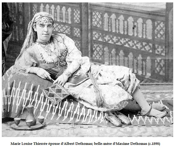 Marie Louise Thierrée épouse d'Albert Dethomas; belle-mère d'Maxime Dethomas (c.1898)